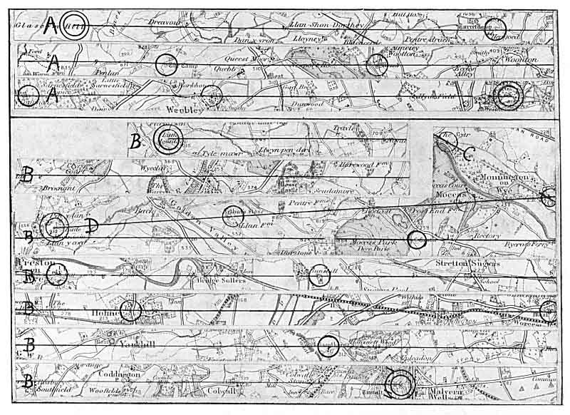 Alfred Watkins (1855-1935), Map of two leys